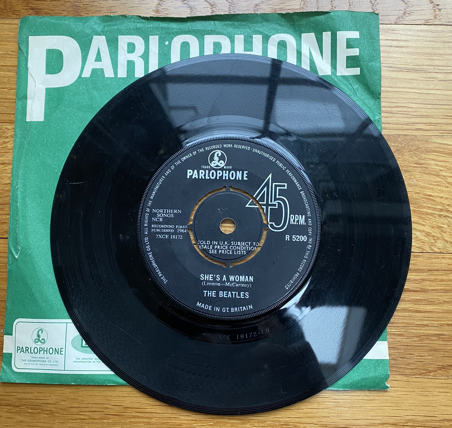 In some regions, 7-inch 45rpm records were sold for a 1/4 inch spindle with a knock out for playing on a 1 1/2 inch hub. In contrast, in the US for example, the default hole was for a 1 1/2 hub. To play the latter on a 1/4 inch spindle required the insertion of a device called a "single puck."